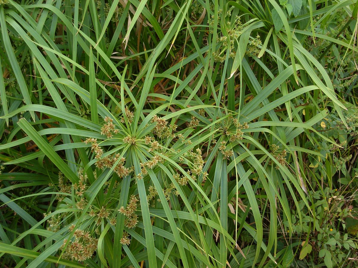 Cyperus alternifolius or Cyperus involucratus; along Tongan swamp